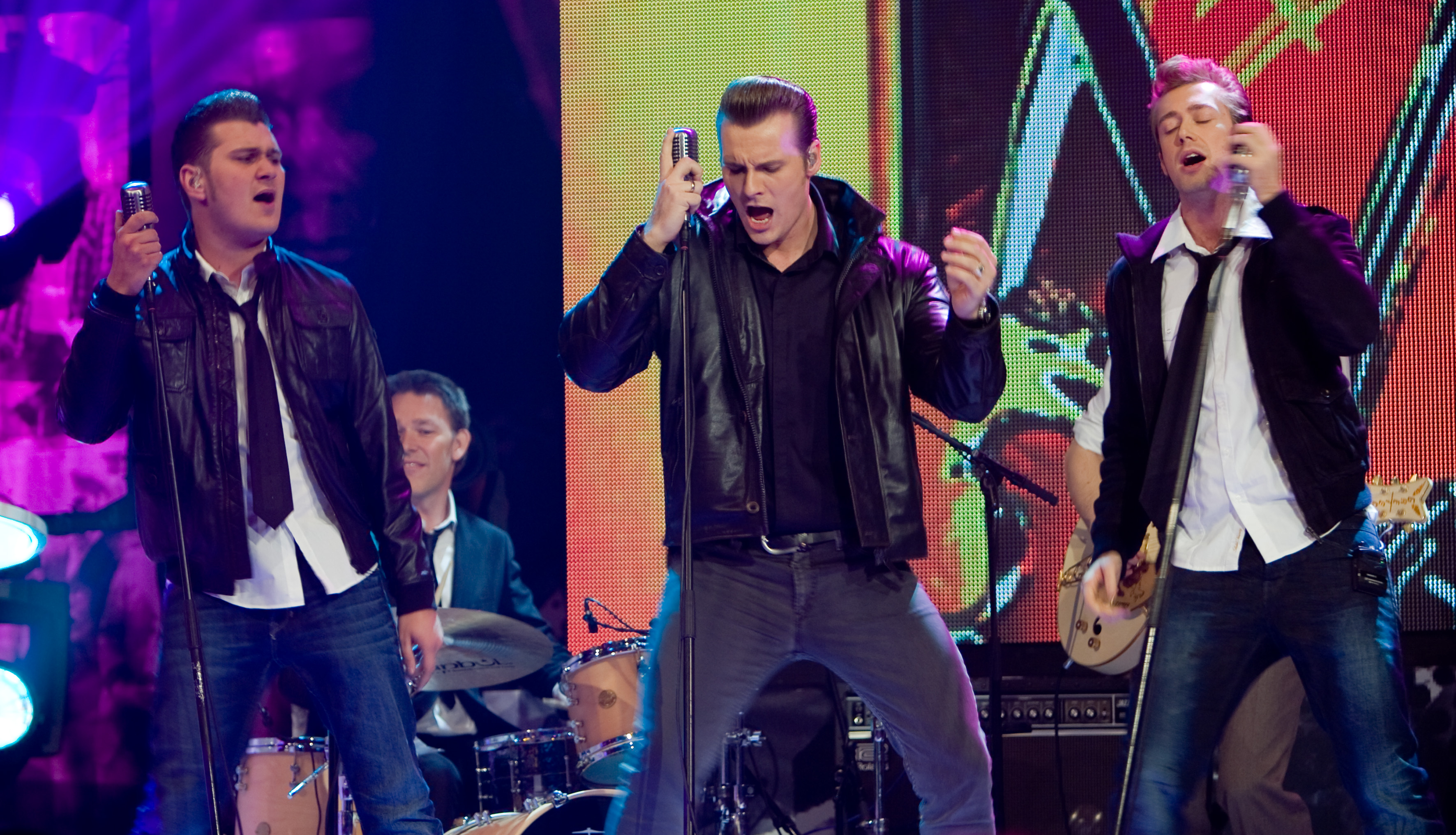 European Border Breakers Awards 2011 - Public Choice Award winners The Baseballs - by René Keijzer